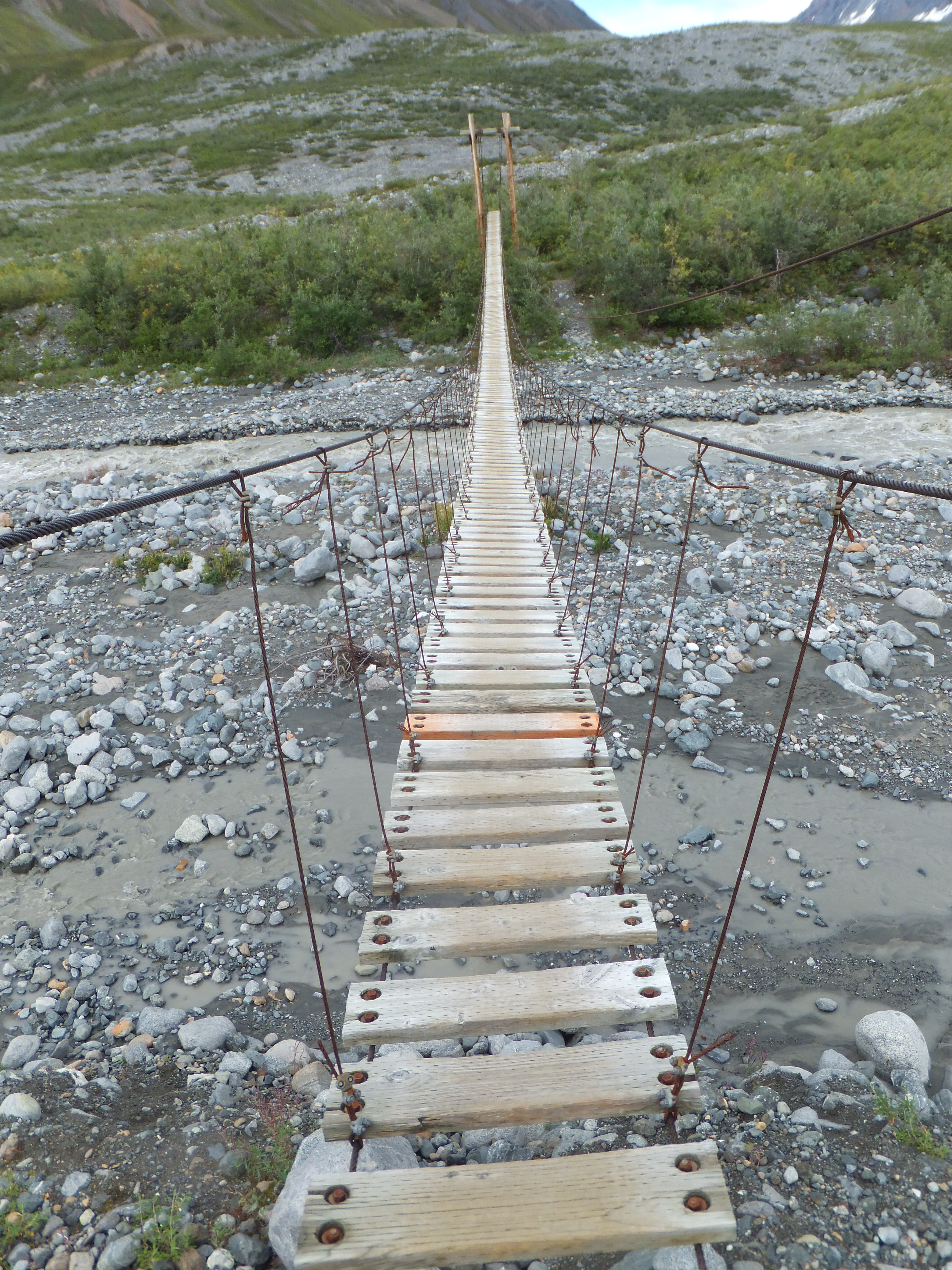 Suspension bridge over College Creek, west of Gulkana Glacier, near Richardson Highway, August 11, 2013.jpg